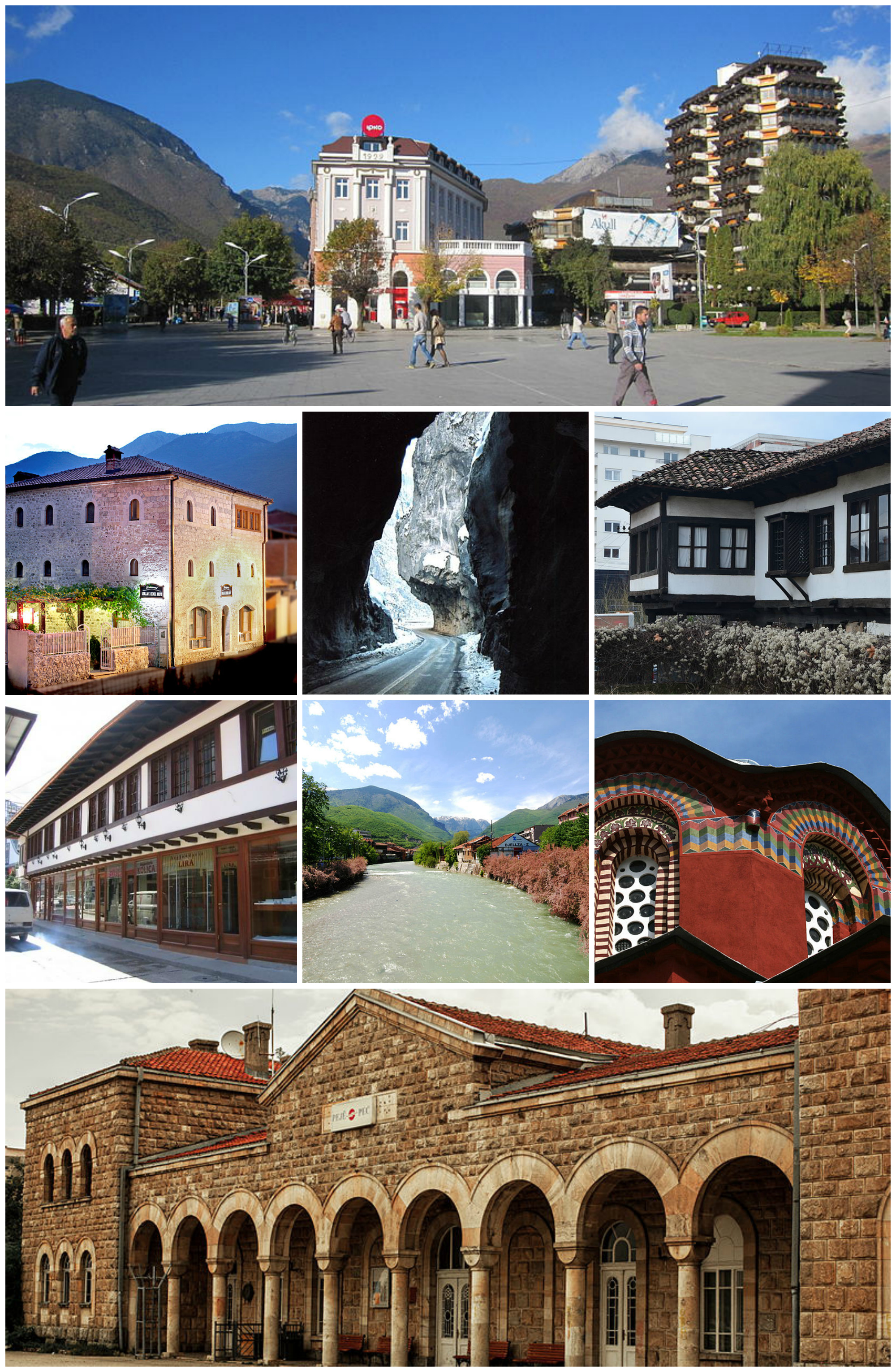 Collage of Peja